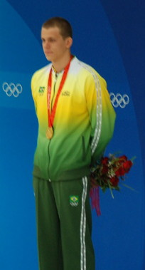 Brazilian swimmer Cesar Cielo-Filho on the podium of the 50 meters at the Watercube, Beijing, august 16th 2008